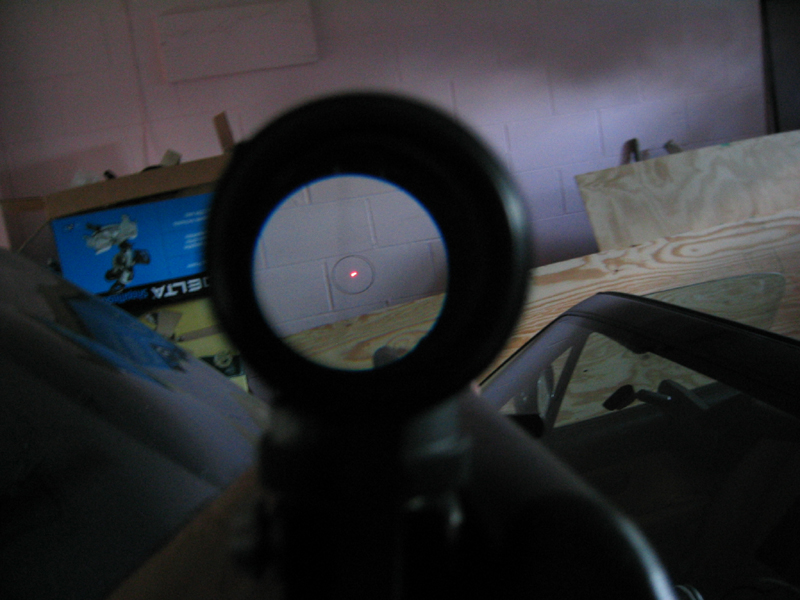 View through the PK-AS collimating optical sight. It is an unmagnified, battery illuminated rifle scope. In this picture, the sight is turned to the maximum setting of illumination.